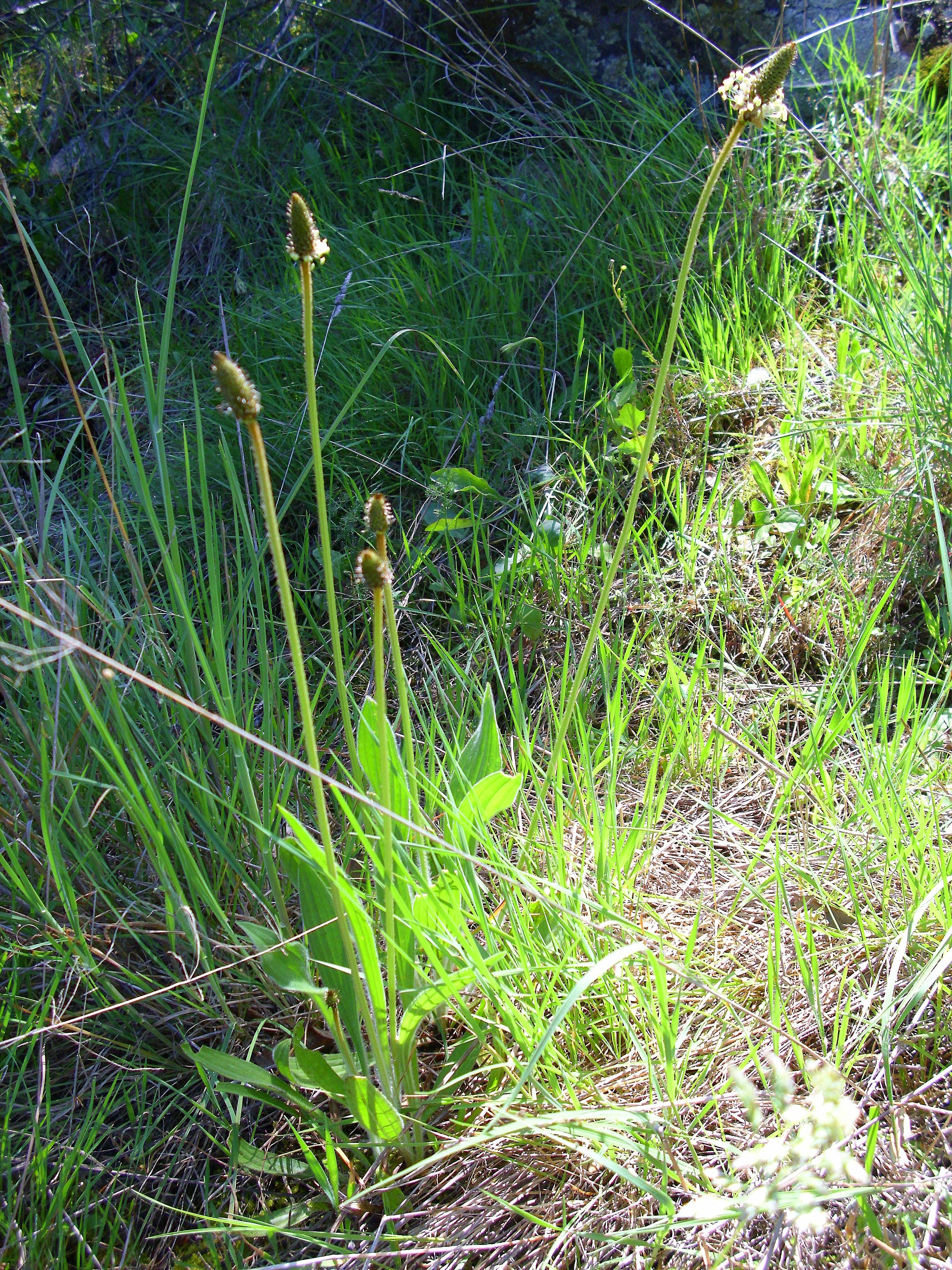 Plantago lagopus habit, Sierra Madrona, Spain